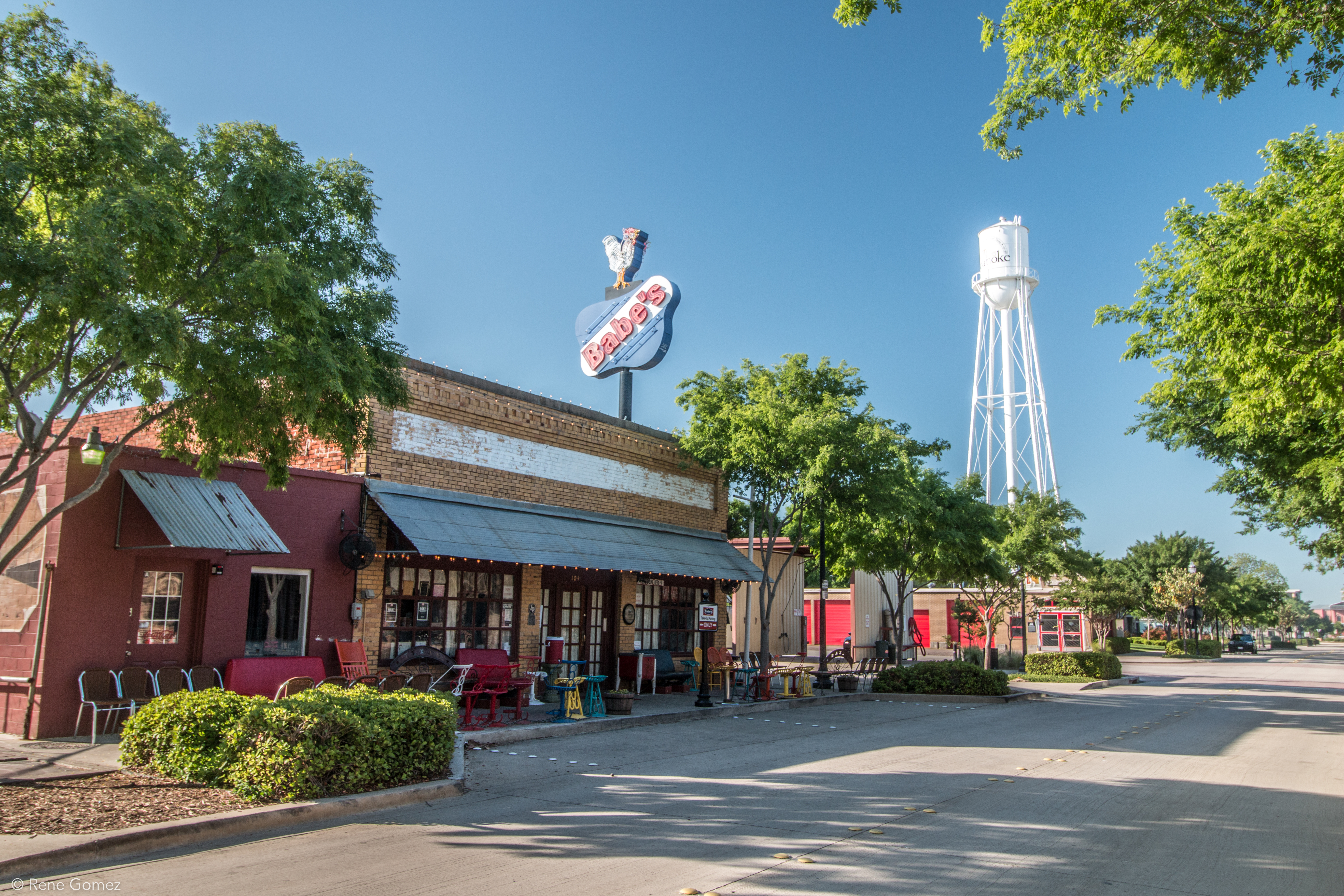 Central Roanoke Historic District in Roanoke, Texas